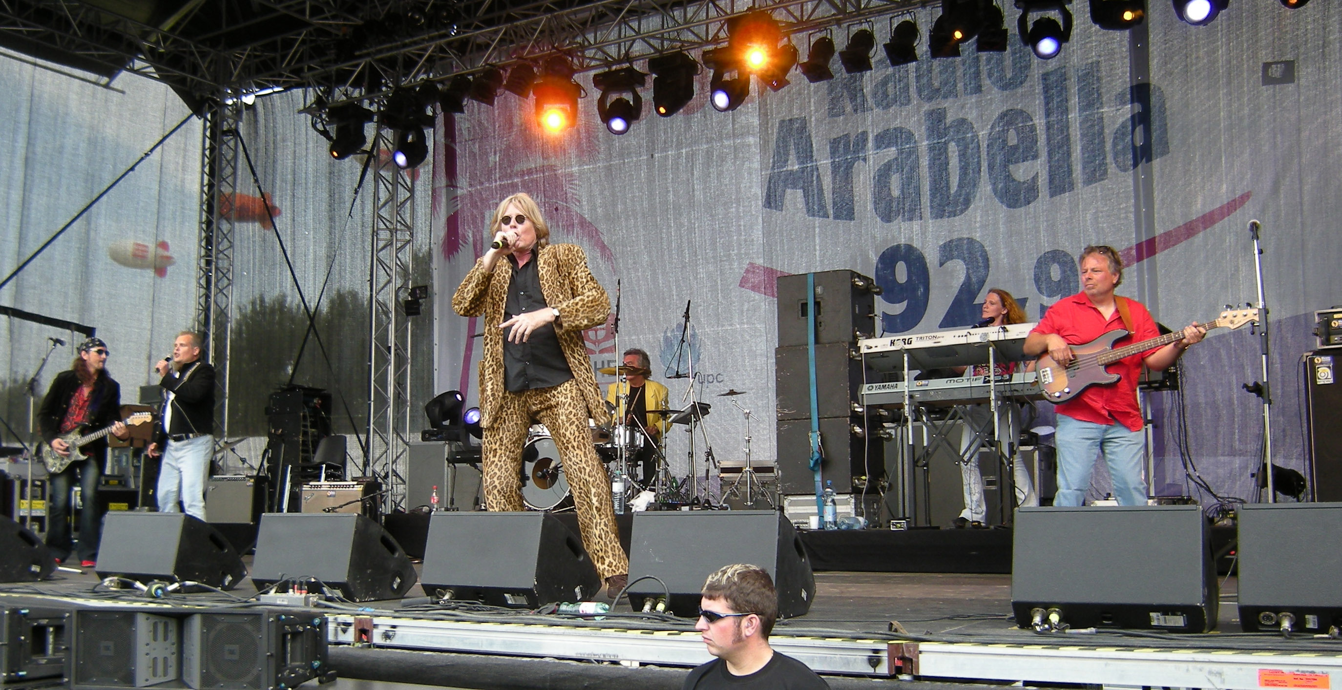 Donauinselfest 20100626 019 Geier Sturzflug Camera time stamp is set to UT, which is local CEST -2h.